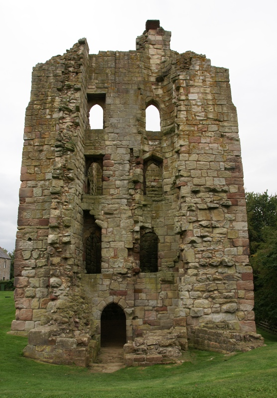 Etal Castle, Northumberland, England. Donjon viewed from the east.